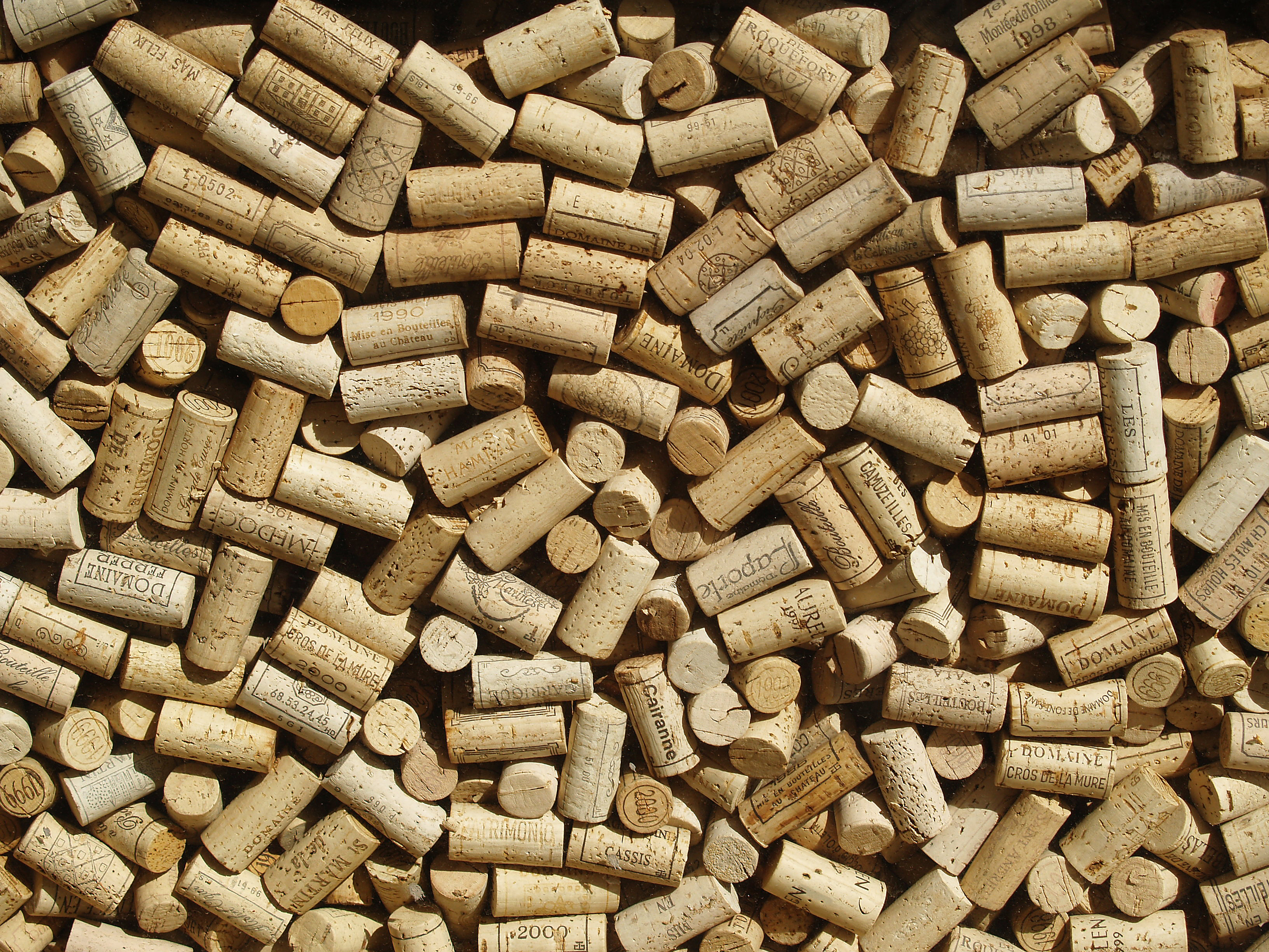 Wine bottle corks behind glass